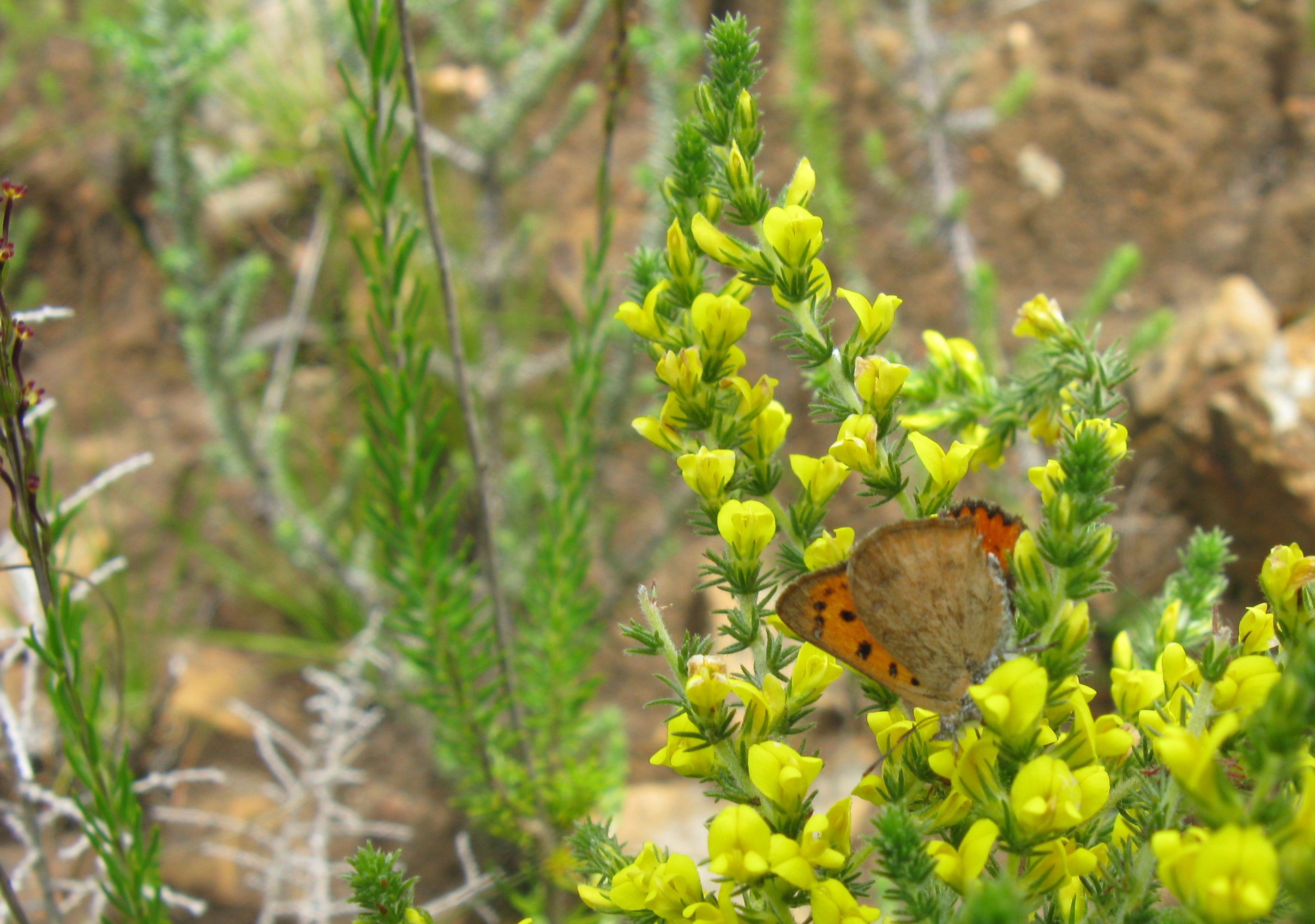 Copper Butterfly, family Lycaenidae, Genus Chrysoritis, visiting probably Aspalathus ericifolia